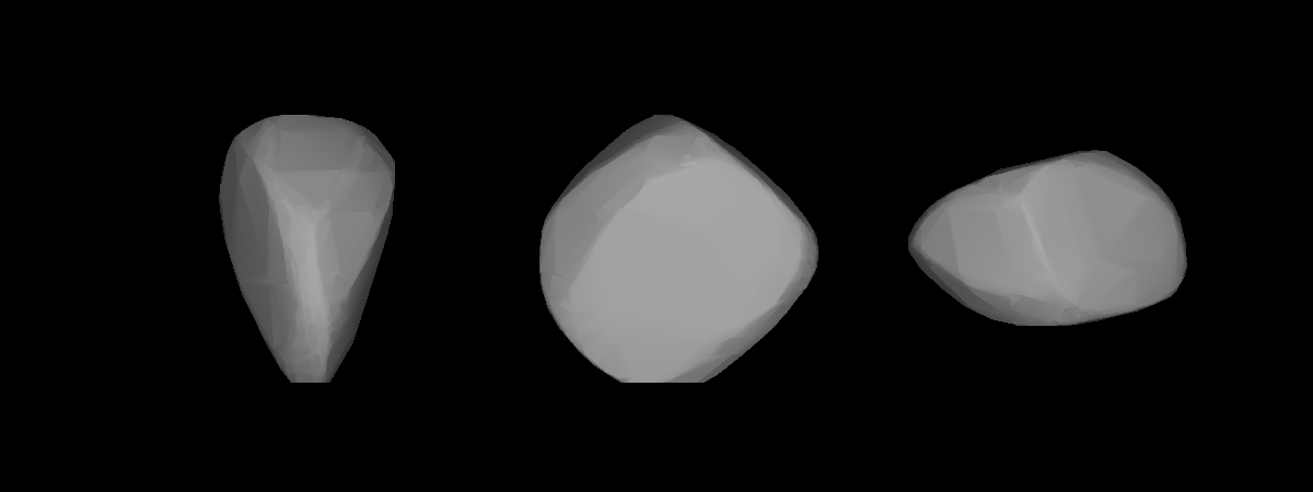 A three-dimensional model of 1607 Mavis that was computed using light curve inversion techniques.